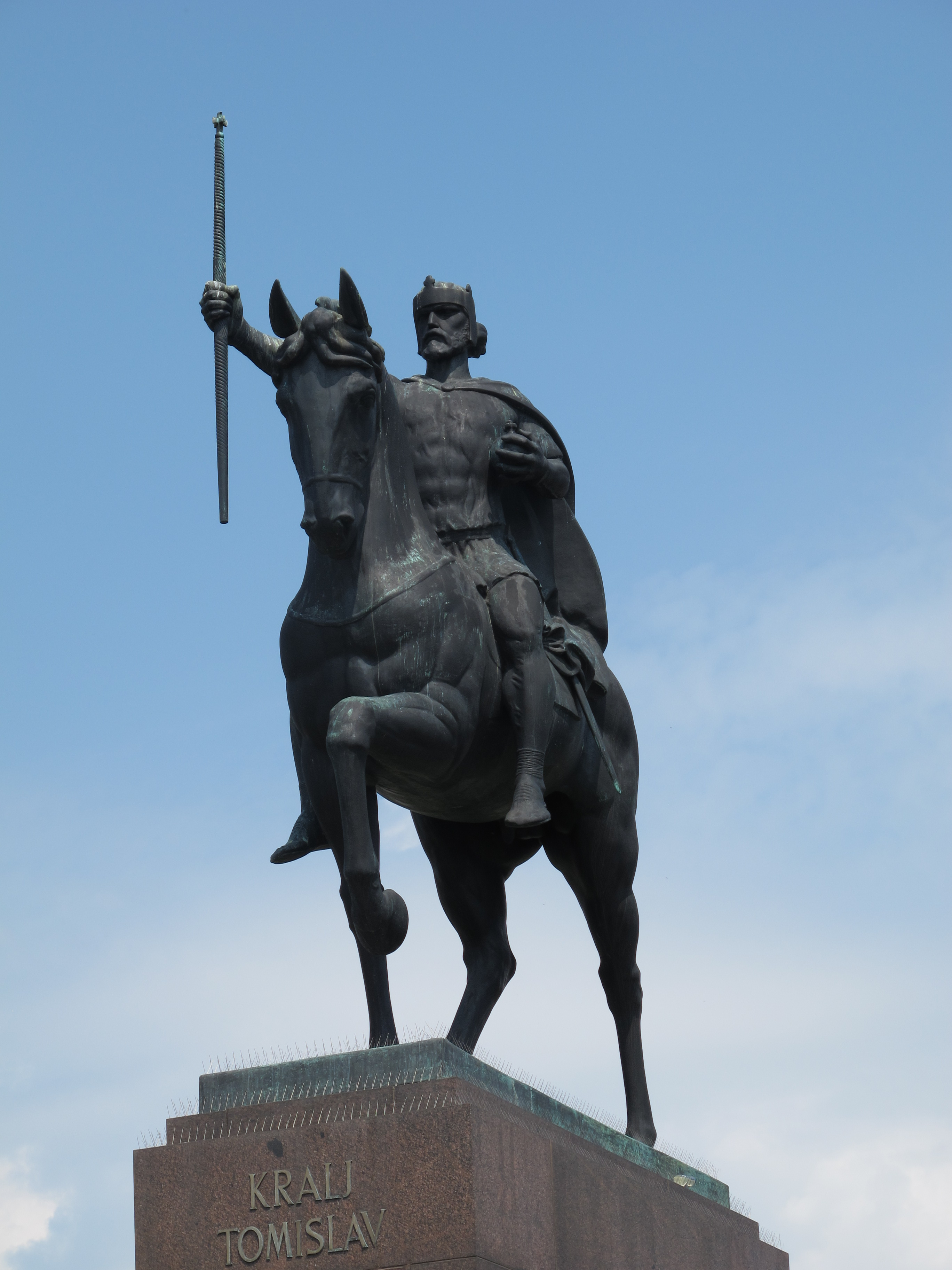 King Tomislav Statue in Zagreb